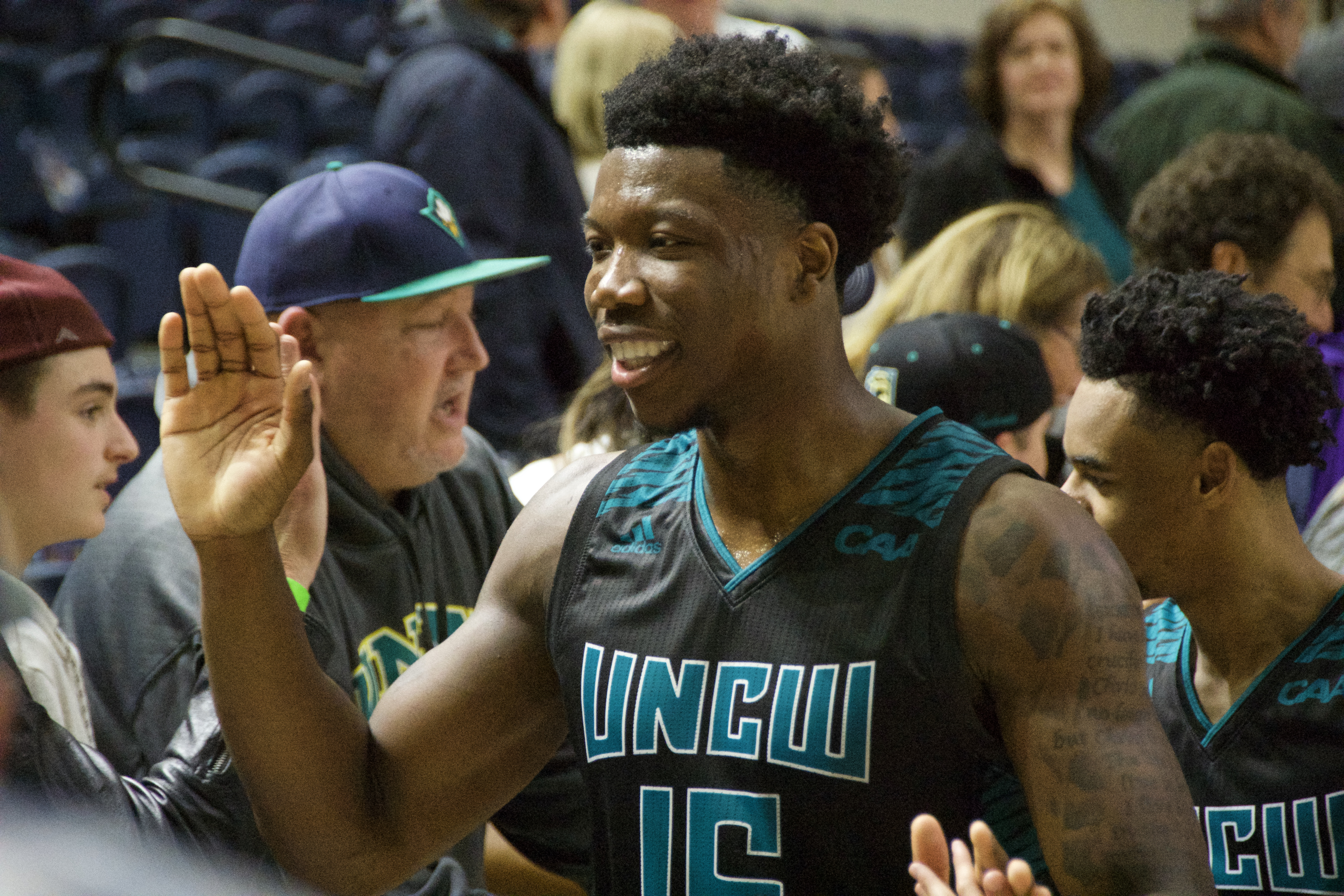 Devontae Cacok on his Senior Day following UNCW's 87-79 win over Hofstra